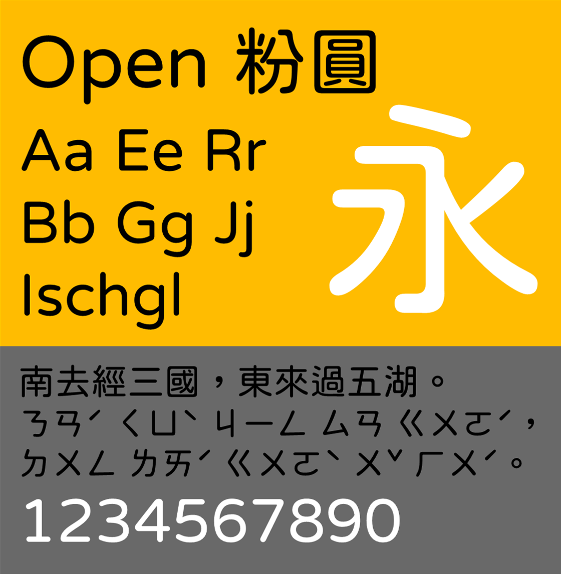 Sample of Open Huninn font, displayed is Open Huninn v1.10. Shown in picture are Latin alphabets “AaBbEeGgJjRr”, “Ischgl”, Traditional Chinese “南去經三國，東來過五湖。” with its bopomofo, and numerals 1-0.